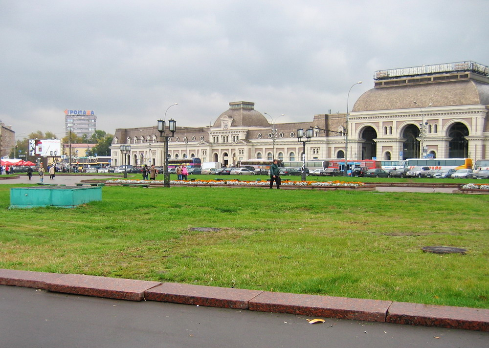 Paveletskaya Square in Moscow.